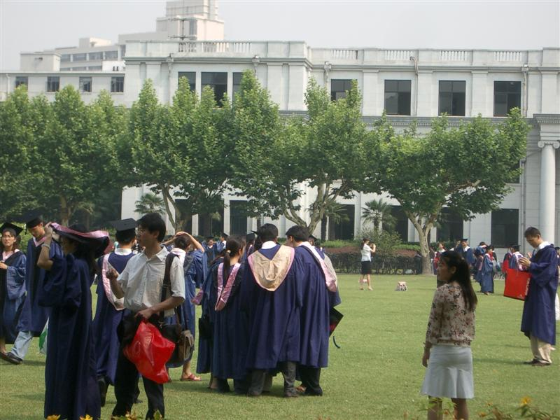 ECNU Graduation